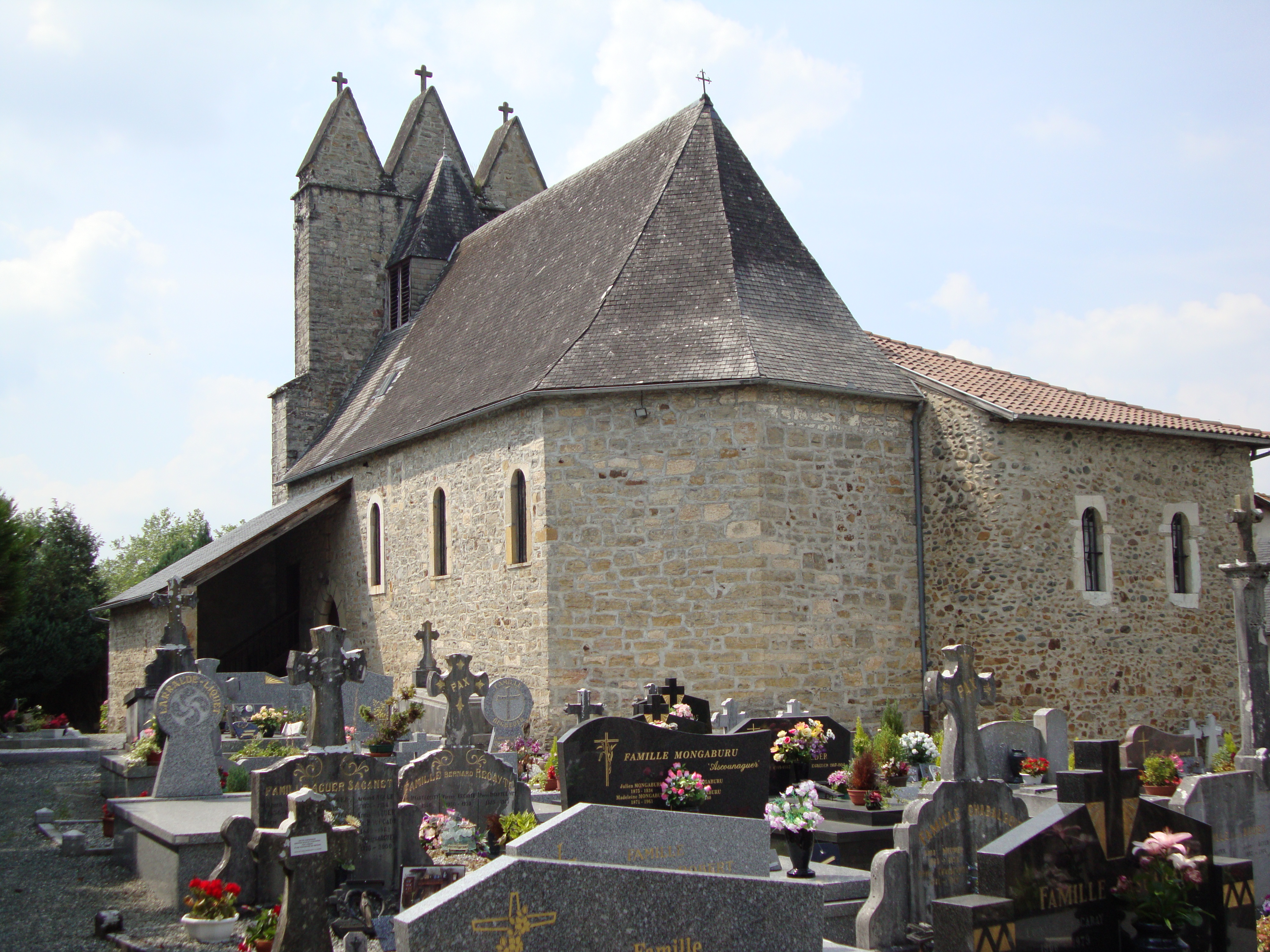 Charritte-de-Bas (Pyr-Atl, Fr) église trinitaire, coté chevet